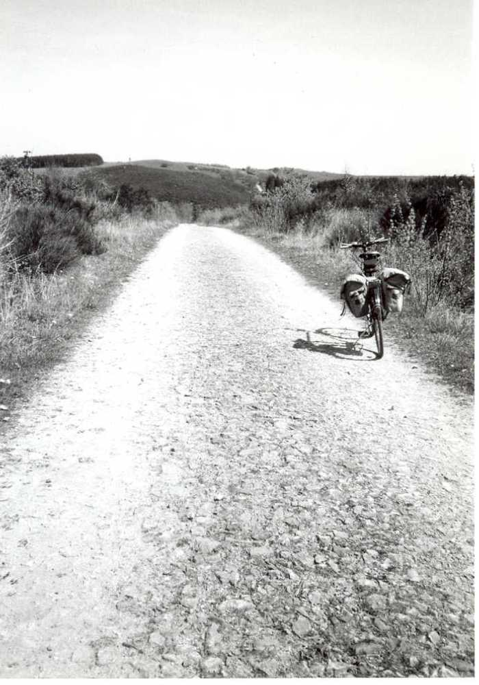 former Roman Road, now covered with modern material, in the Eifel region, Germany